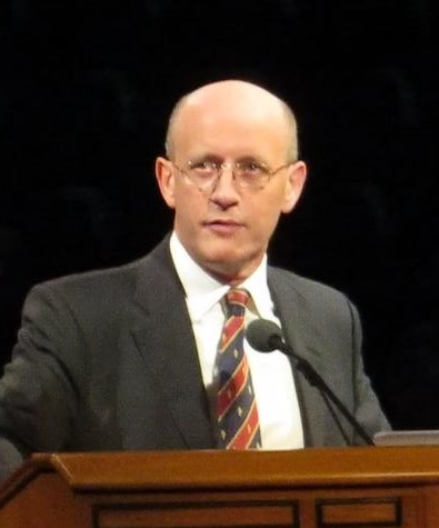 Michael Ward, a professor and author of Planet Narnia: The Seven Heavens in the Imagination of C.S. Lewis, speaking at a BYU forum.